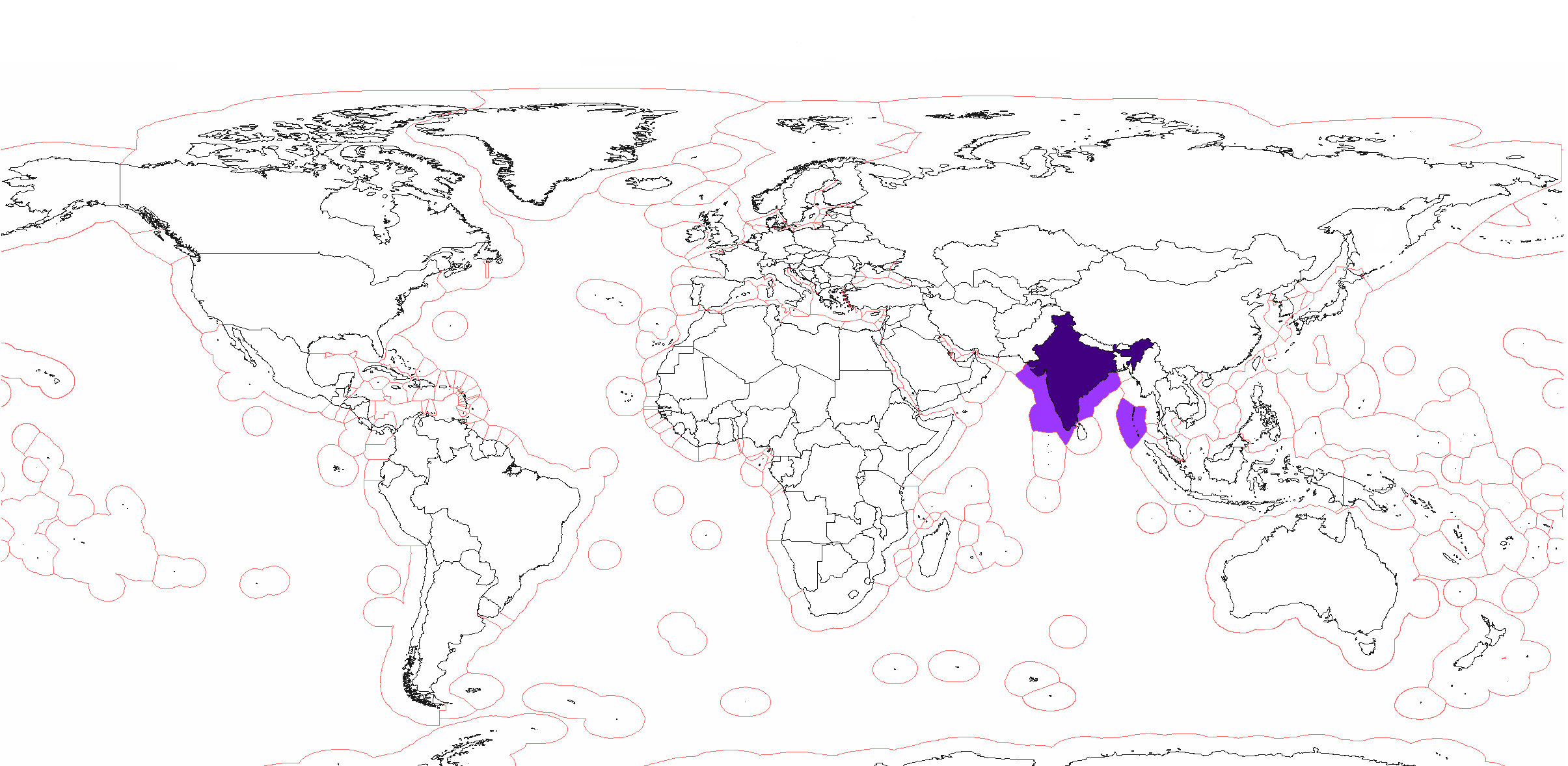 India's Exclusive Economic Zones.